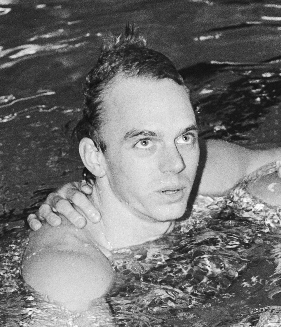 Internationale zwemwedstrijden: Speedo-meet Amersfoort 1983. Rowdy Gaines